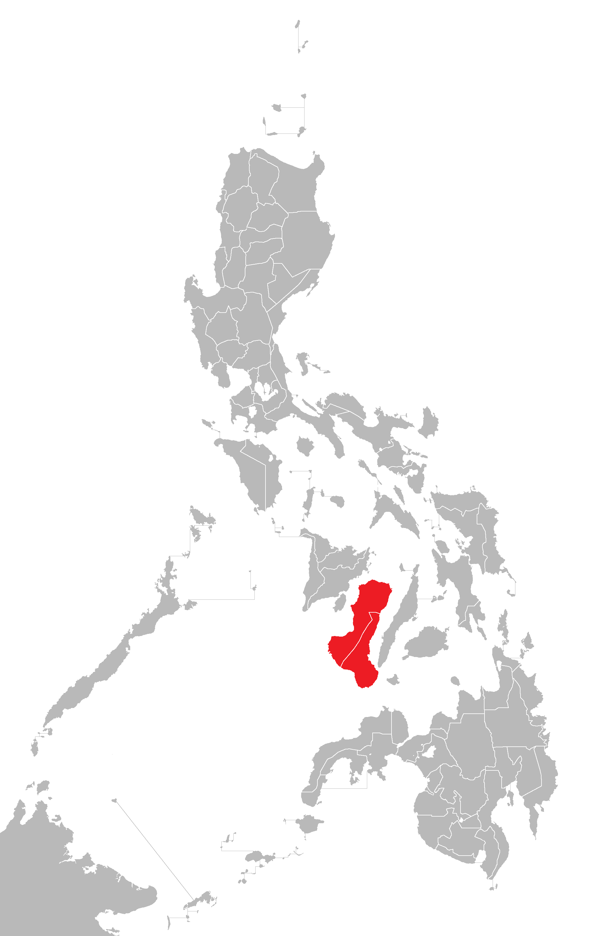 Derived from File:BlankMap-Philippines.png Map of Negros Island In red